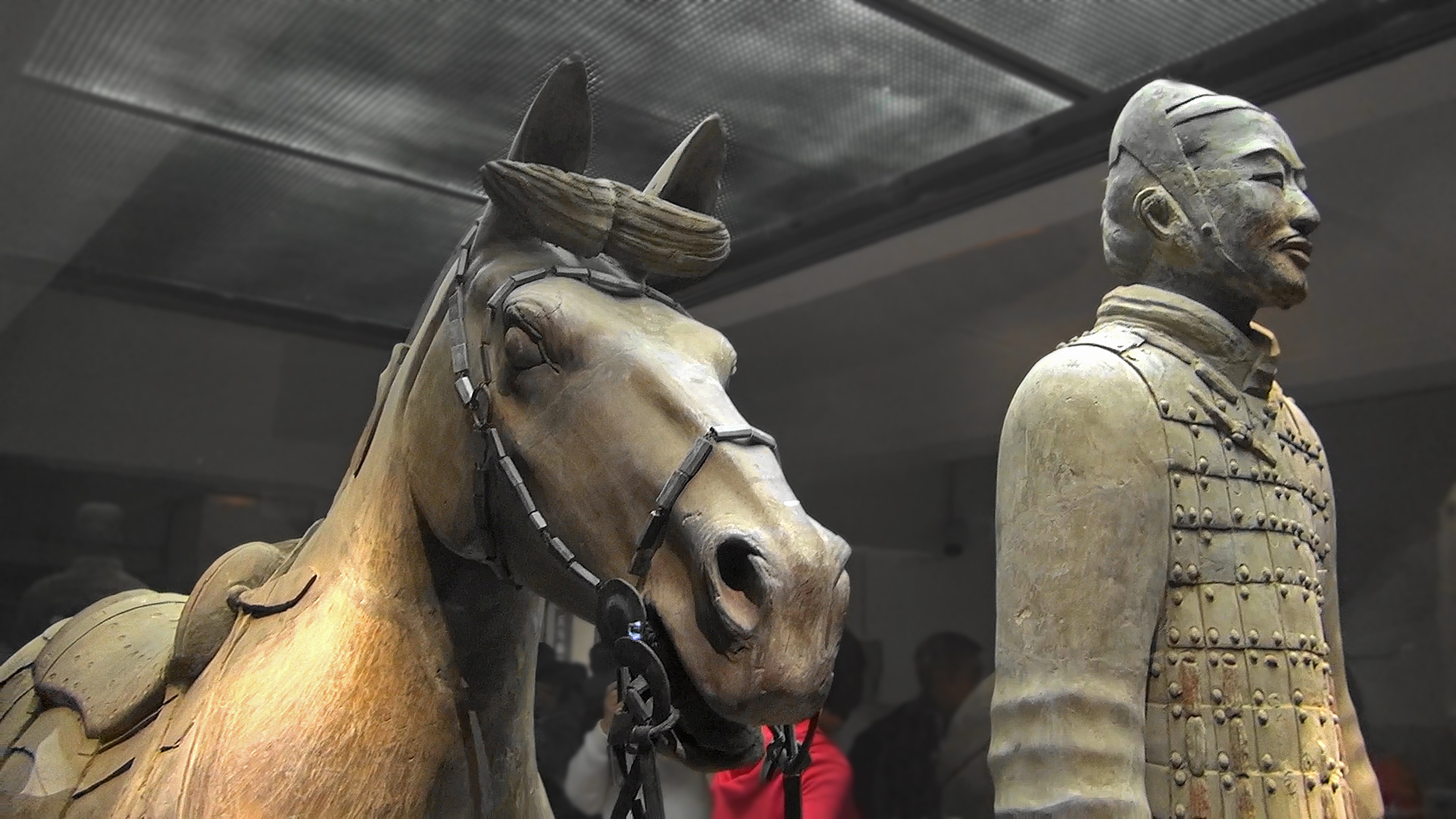 Mausoleum of the First Qin Emperor, Hall 2